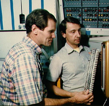 Astronaut payload specialists Congressman William Nelson and Charles Walker review hold initial version of the hand-held Vapor Diffusion Apparatus (VDA) as they discuss crystal photographic documentation flight procedure.